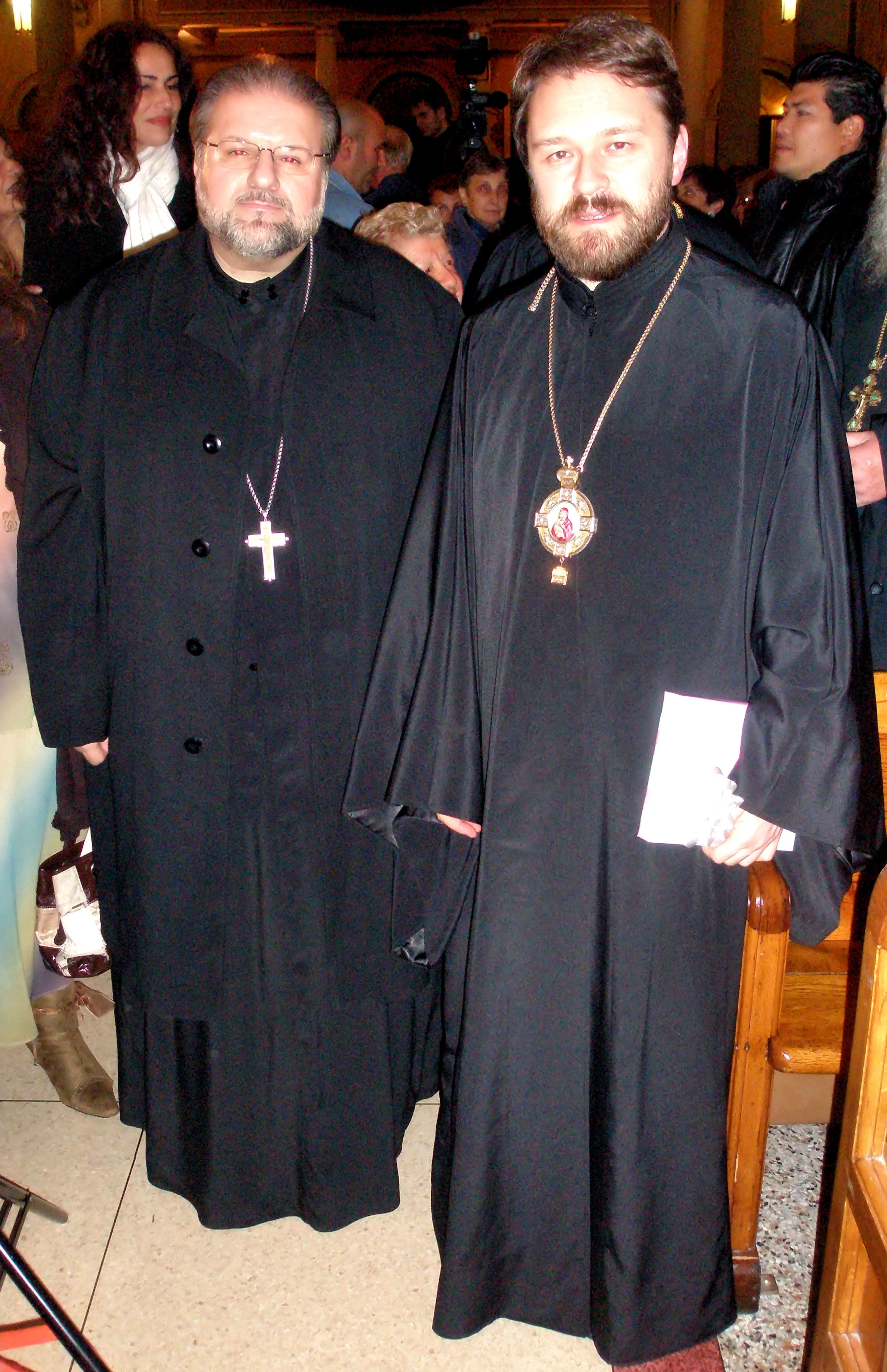 Bishop Hilarion (Alfeyev) of Vienna and Austria together with Very Reverend Protopresbyter Fr. Panagiotis J. Avgeropoulos (Greek Orthodox Metropolis of Toronto), at St. Paul's Basilica in Toronto, where Bishop Hilarion’s oratorio, ‘St Matthew Passion’ was performed in its North American premiere performance, sung in English text. (Bishop Hilarion visited Toronto, Canada, from 21 to 26 October 2008, on the invitation of the Canadian Council of Churches and the Roman Catholic Archbishopric of Toronto.)